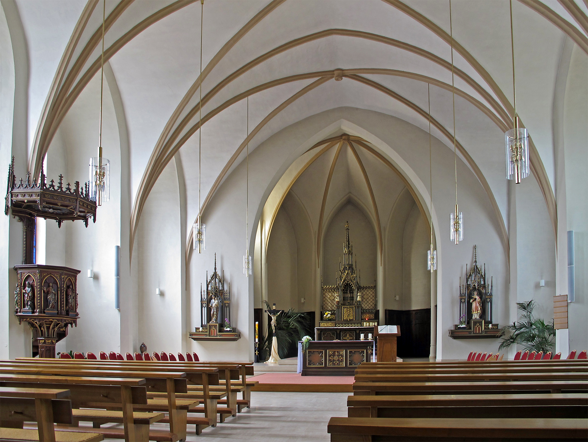 Church of Hostert (Niederanven), Luxembourg